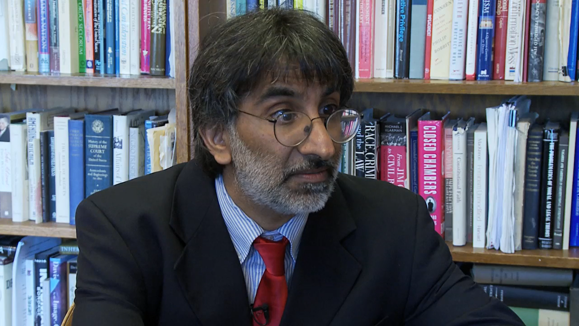 Akhil Reed Amar '84, Sterling Professor of Law at Yale Law School, comments on the potential impact of a Republican plan to change the way electoral votes are allocated in Pennsylvania.